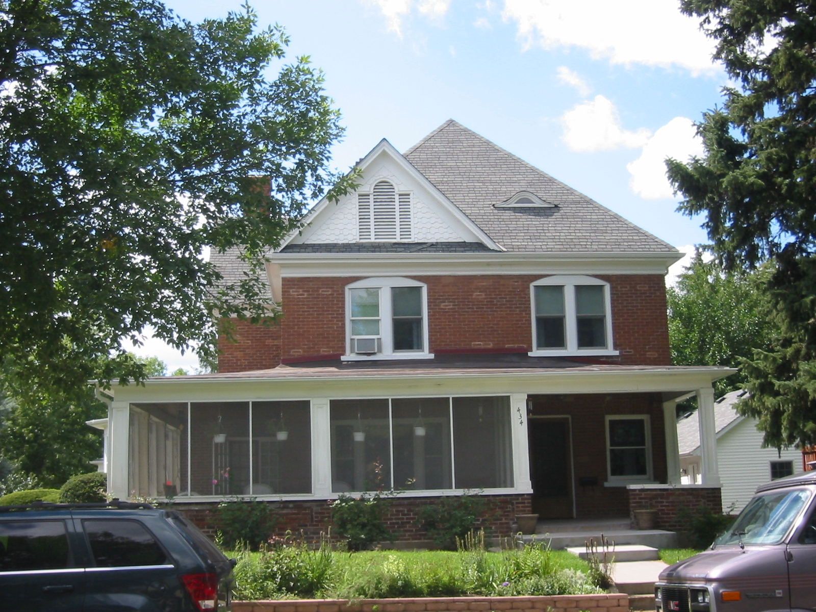 Julius A. Coller House in Shakopee, Minnesota.